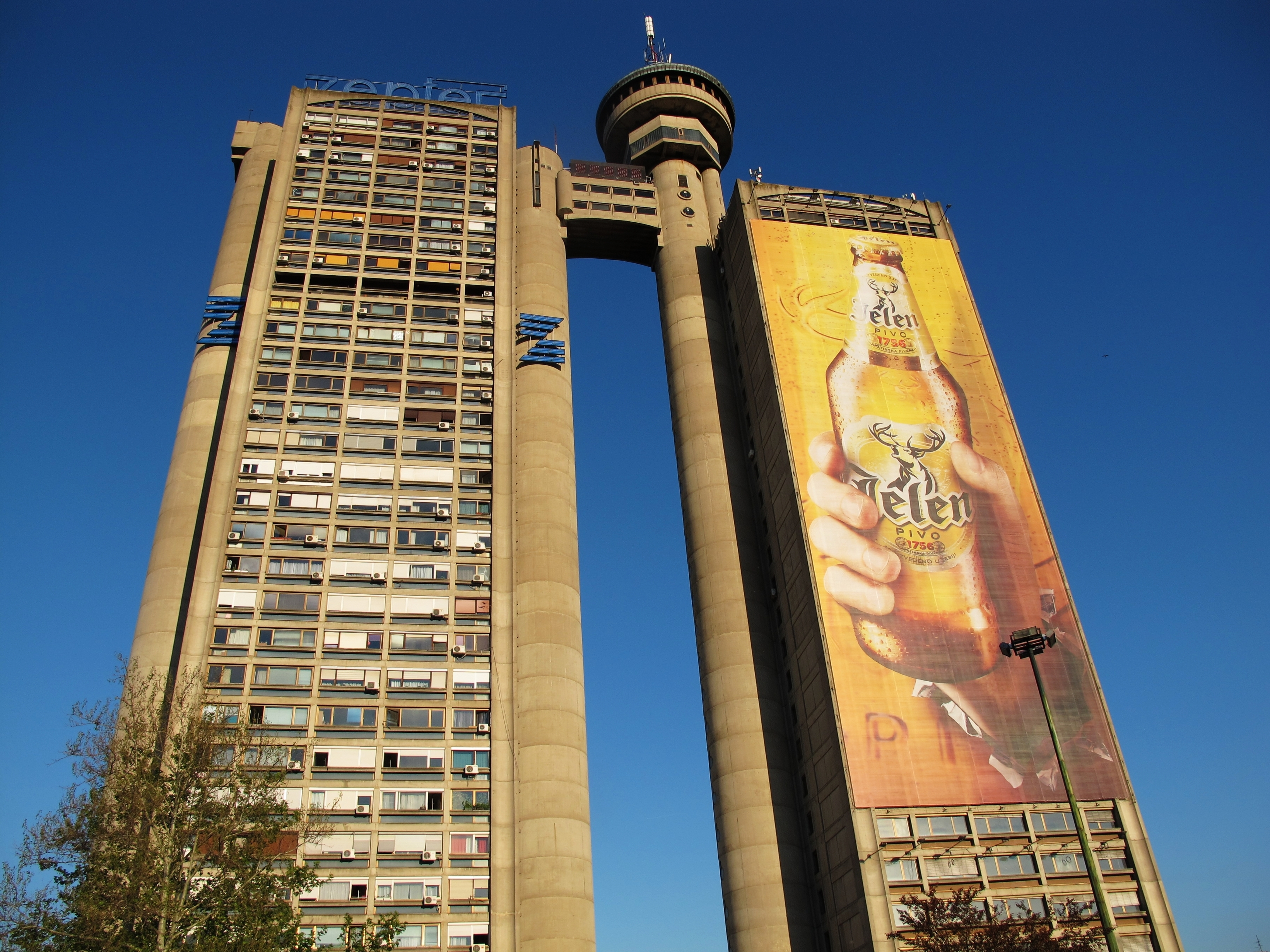 Genex Tower in Belgrade, overview